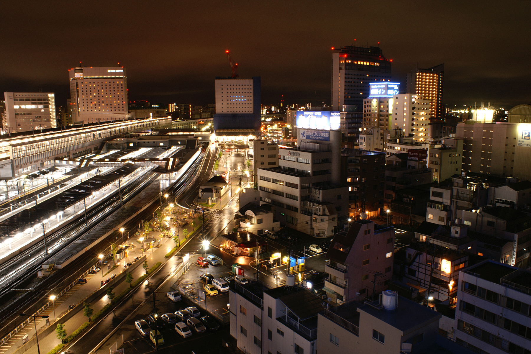 Okayama Station west side